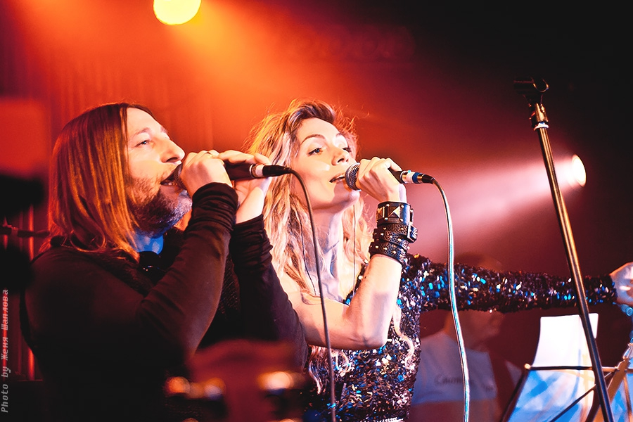 Презентация альбома "Красиво"